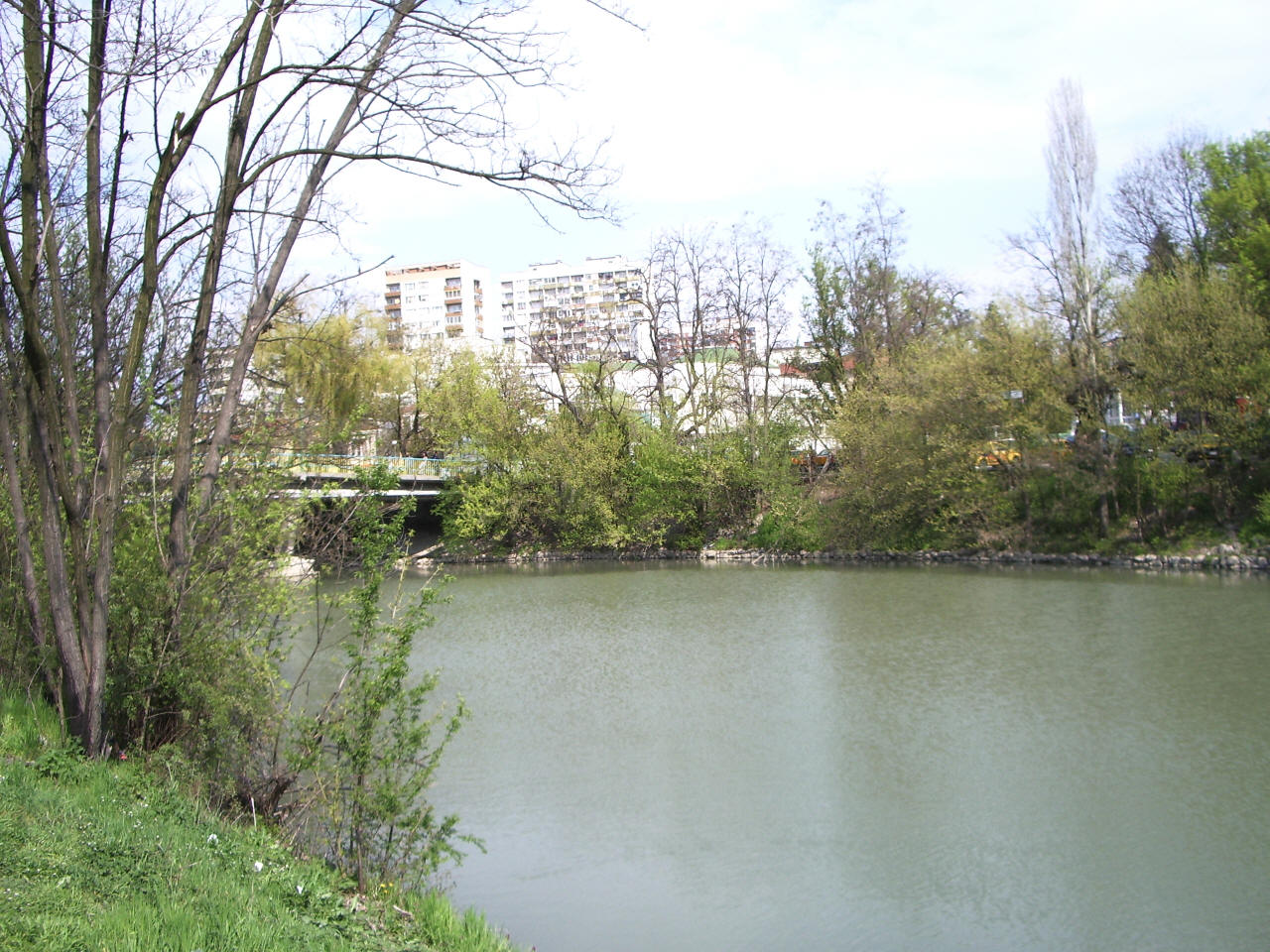 Tundzha River in Yambol, Bulgaria - The Bridge that connects former Mineral Public Bath and Hotel Tundzha with the City Park Author: Emil Manchev, Yambol, Bulgaria